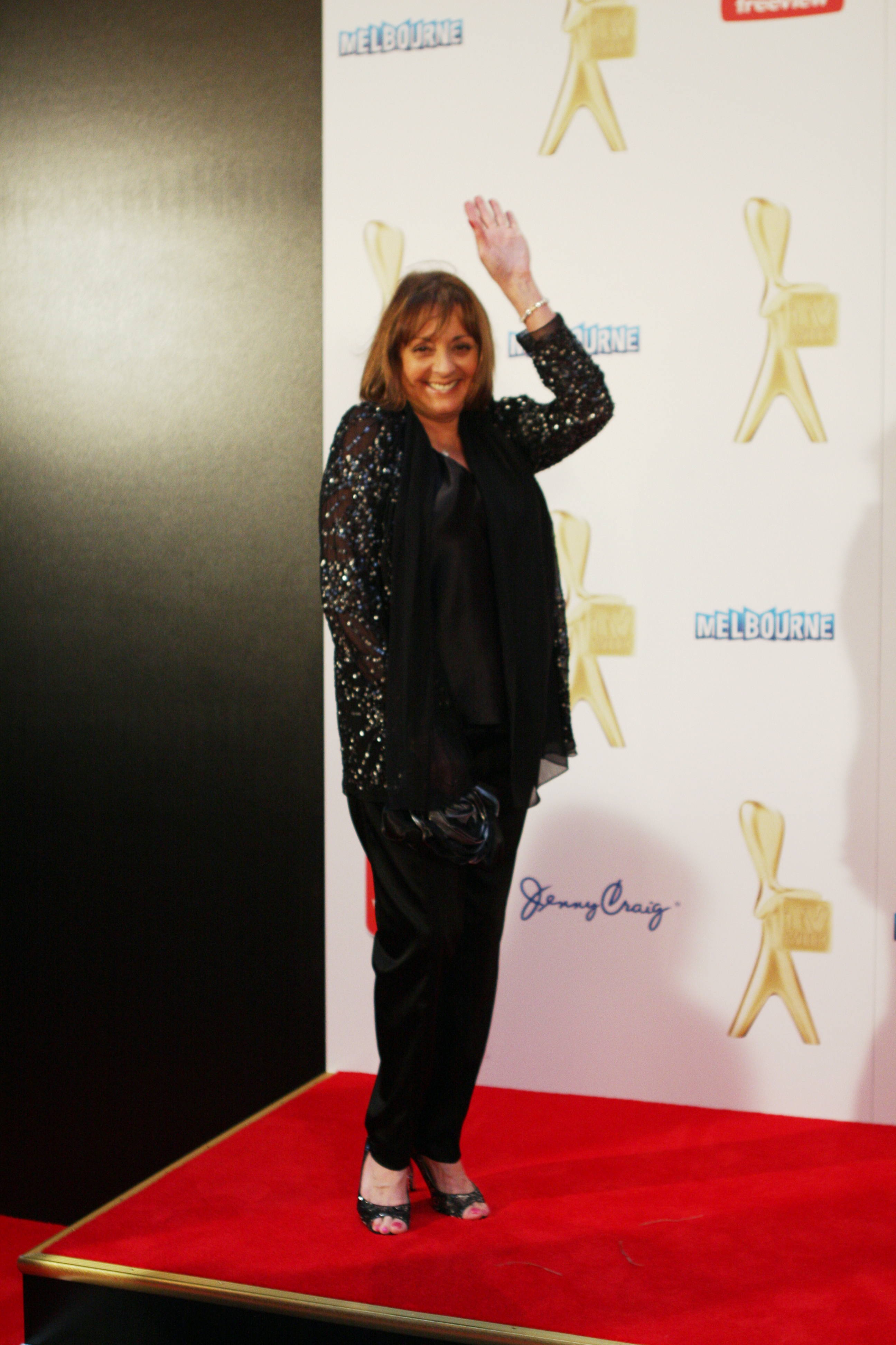 Denise Drysdale at the 2011 Logie Awards